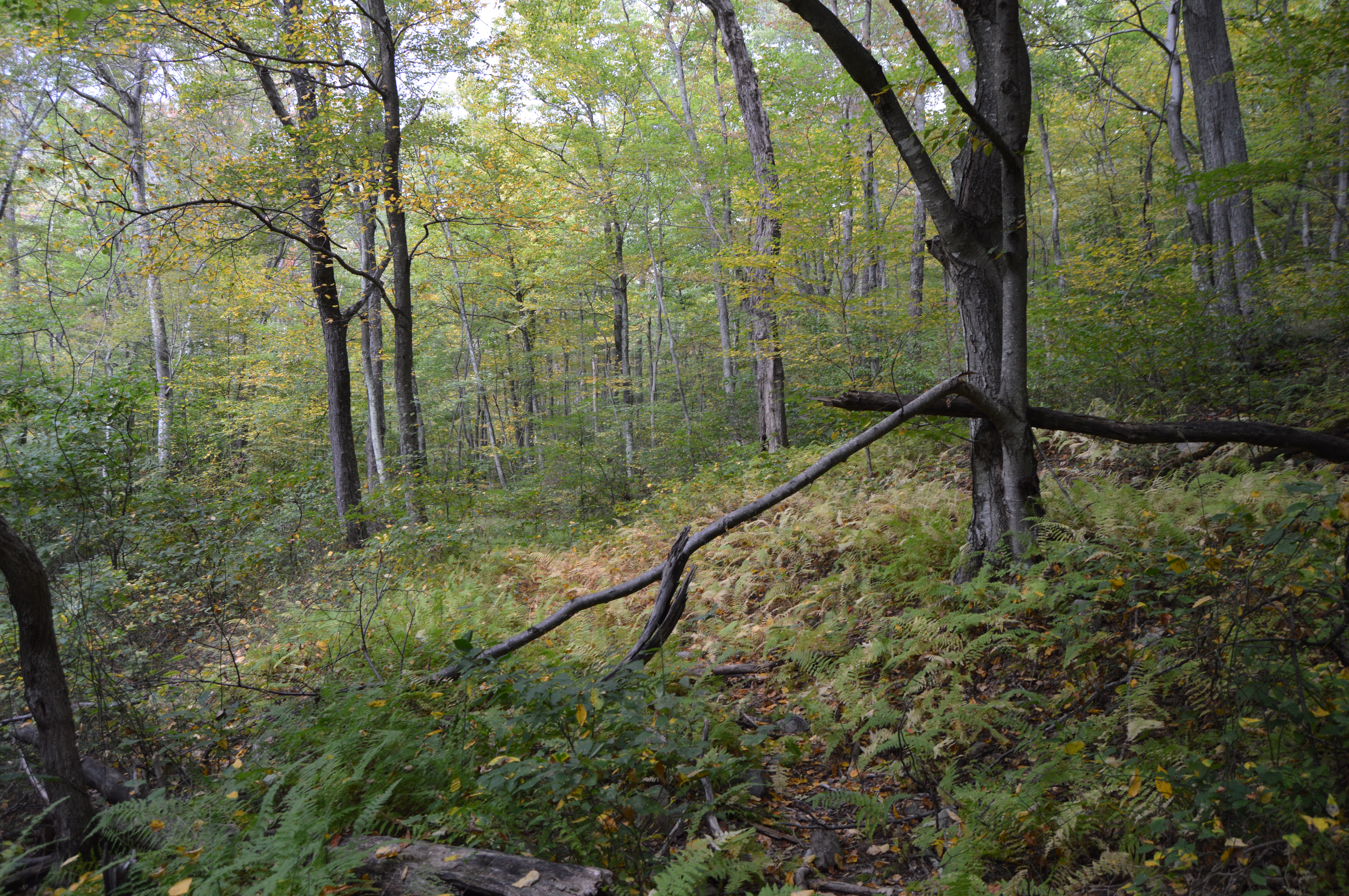 Overview of Blackrock Springs, the source of Paine Run, in the Augusta County section of Shenandoah National Park in the U.S. state of Virginia. The spring and surrounding land are included in the Blackrock Springs Site, an important archaeological site that is listed on the National Register of Historic Places.